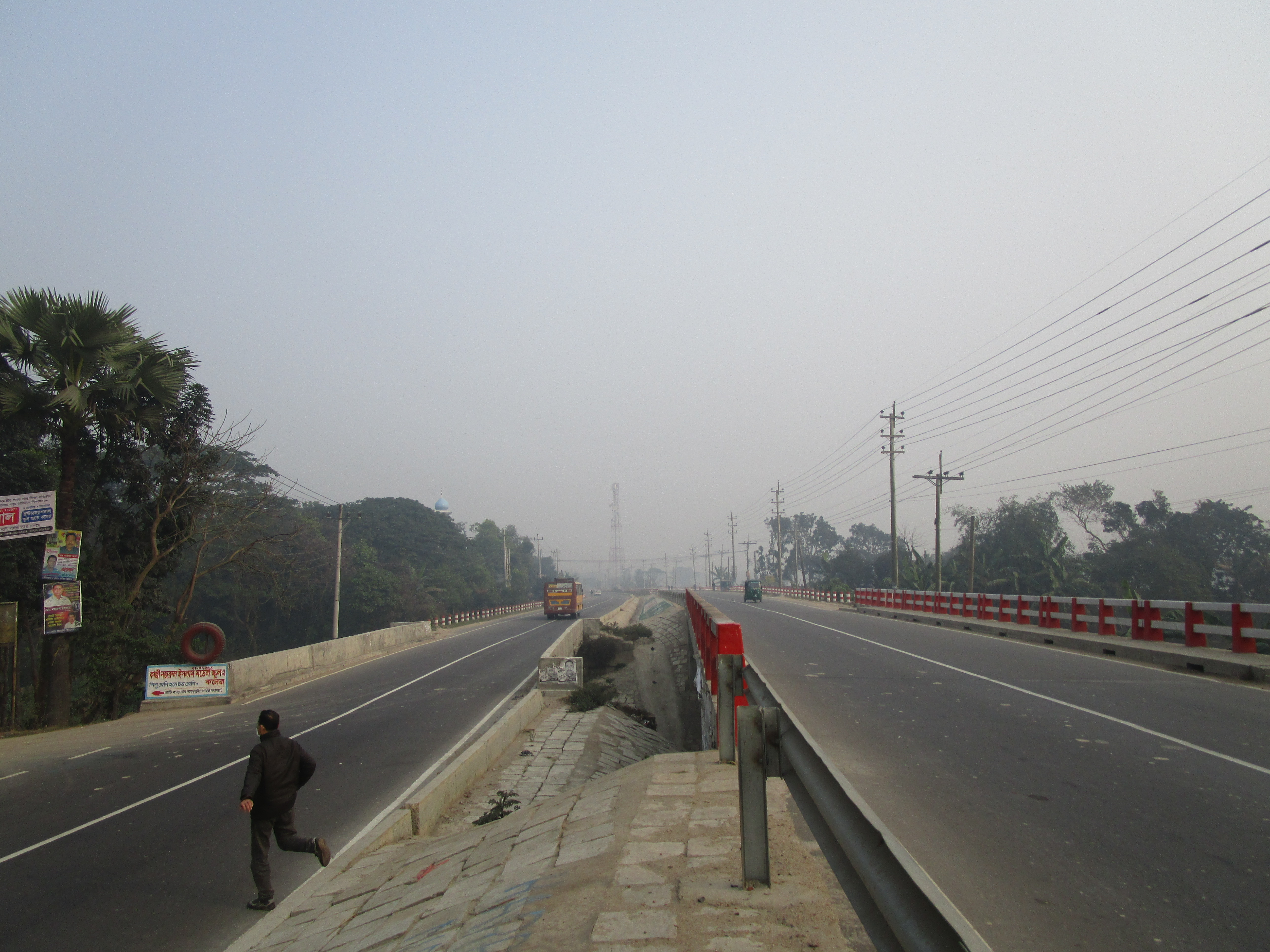 N3 Bangladesh at Pagaria Bridge on Pagaria-Shila River